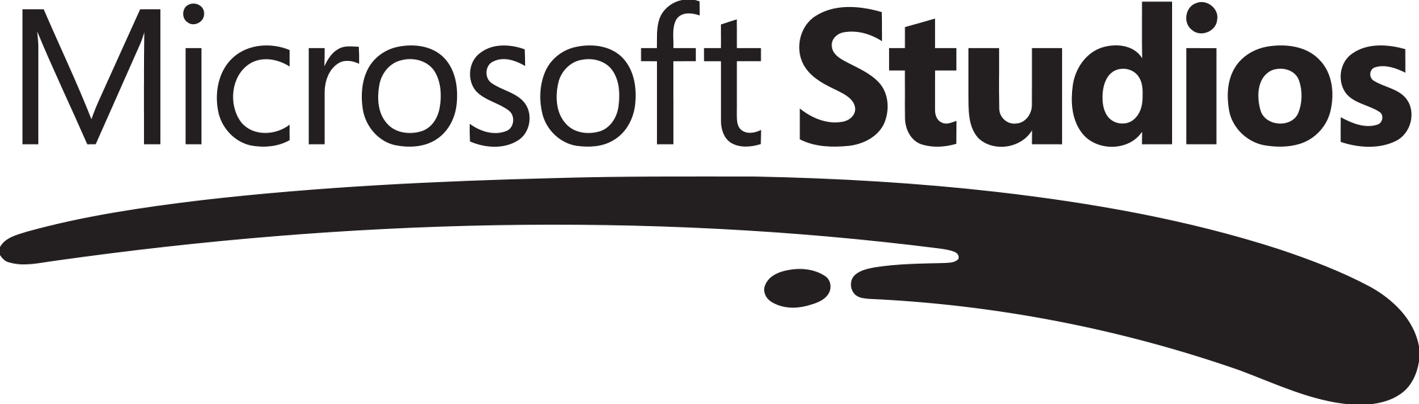 Logo of Microsoft Studios